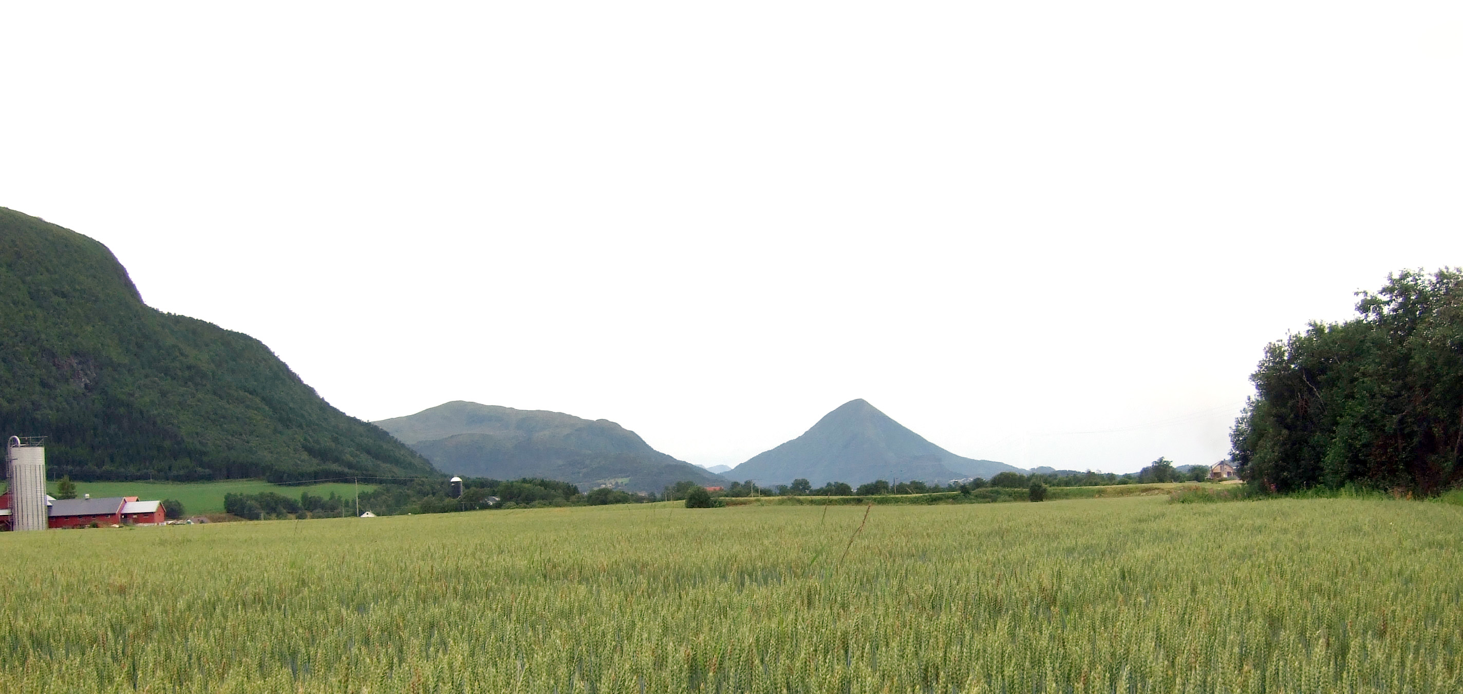 Jendemsfjellet (right), mountain in Fræna municipality, Møre og Romsdal county, Norway